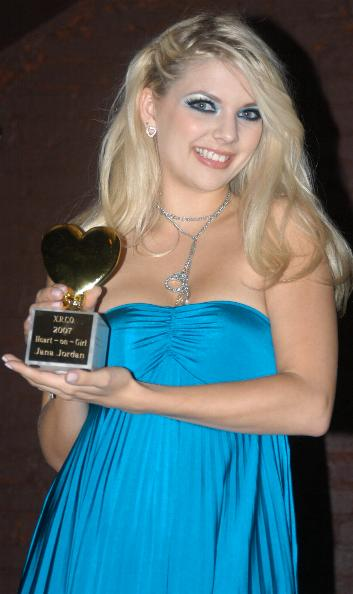 Jana Jordan at XRCO Awards 2007, April 5 2007